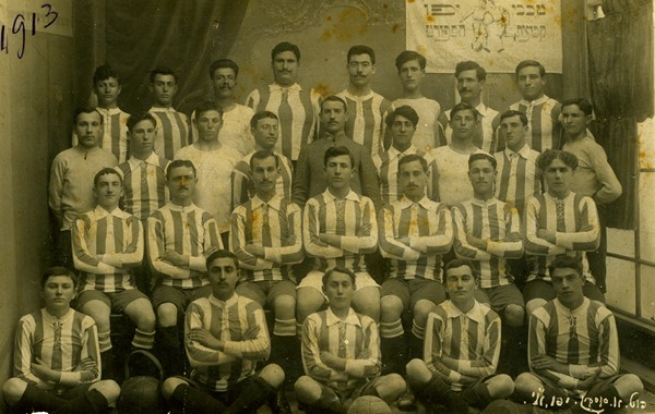 1913 Photograph of Maccabi Tel Aviv-Jafffa From right to to left. Back row [8 people but only 7 names]: Zeew Yenin; Yeohsua Chasnin; Yehoshua Levi; Masoud; Noah Stupenski; Binyamin Liberman Row 3: Nesher; Unkown, Koushnir; Moshe Saloman Yatt; Zvi Nishri; (order unclear after this: Orlow, Gad Peleg, Isaac Kipnis; Koushnir Steated on chairs: Lipman; Eliezer Goldis; Emanual Gourarie; Yehoshua Goldberg [later, rabbi in US Navy] (captain); Rehuven Gourarie; Moshe Shoham; Asher Ben David. Seated on ground: David Tidhar; Mehahem Arber; Krol; Stupenski; Michael Levin